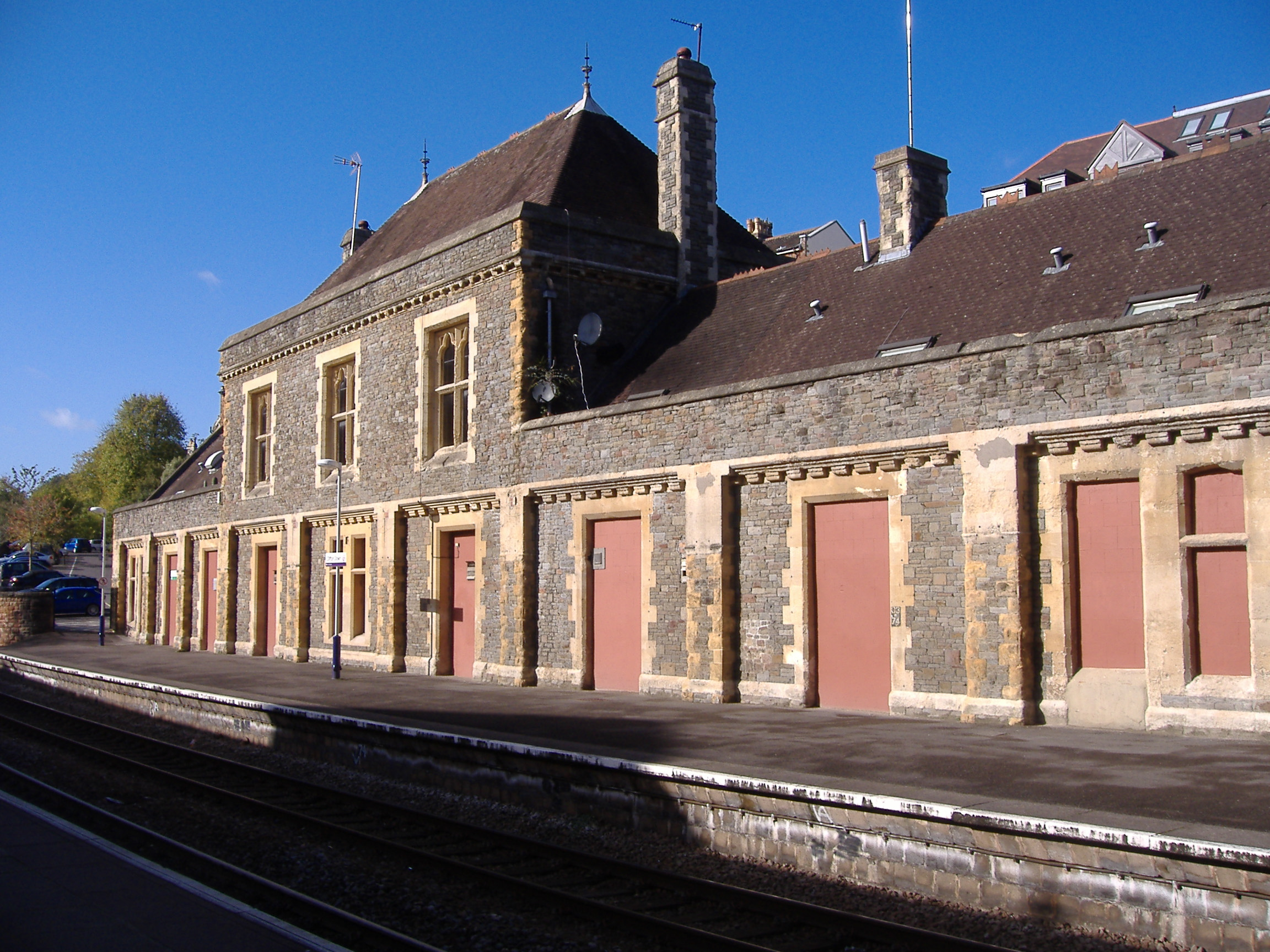 Clifton Down railway station on the Severn beach Line in Bristol.